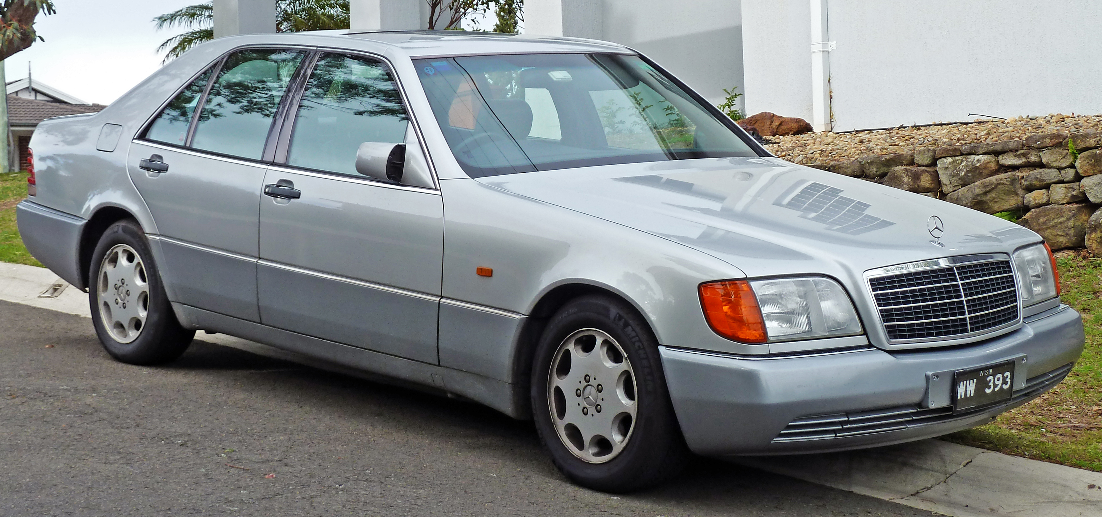 1992 Mercedes-Benz 300 SE (W 140) sedan. Photographed in Cronulla, New South Wales, Australia.